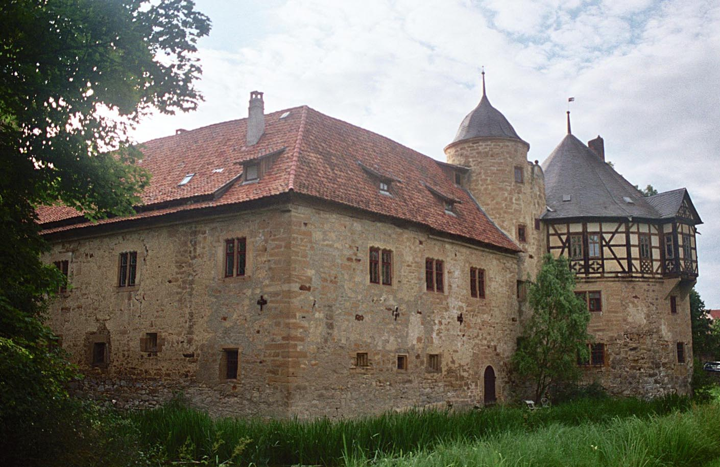 photo of Irmelshausen from north-east side